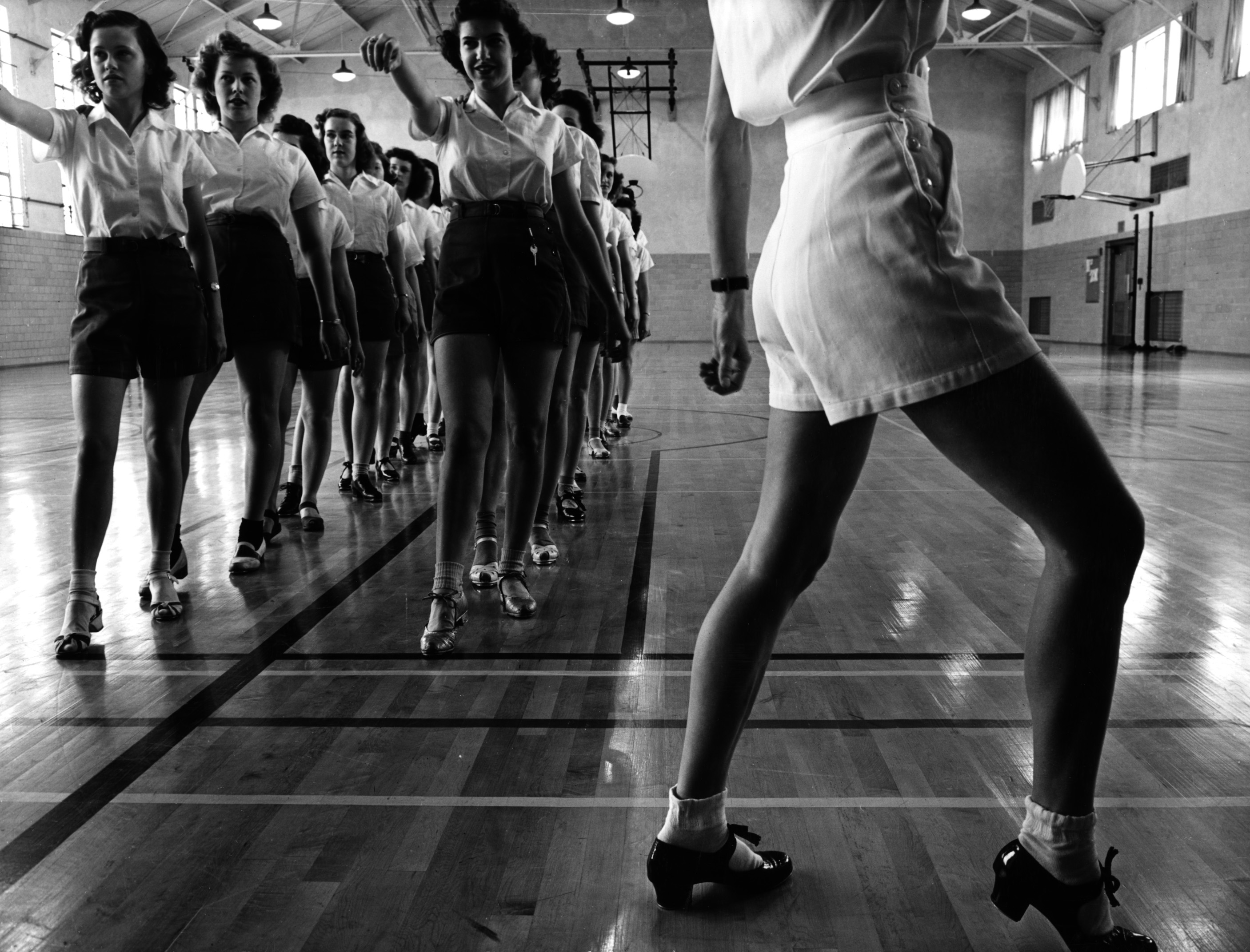 Tap dancing class in the gymnasium at Iowa State College, Ames, Iowa